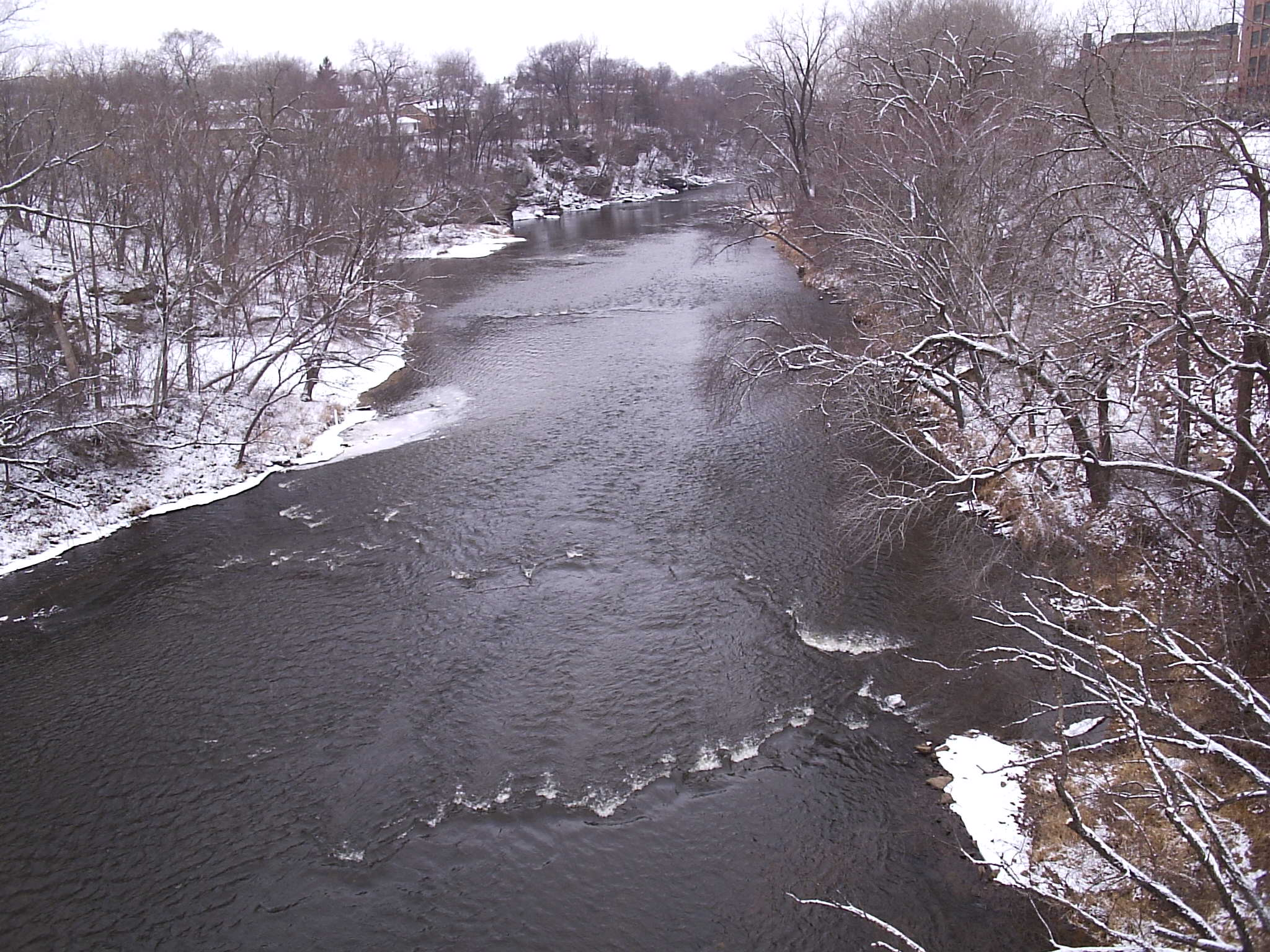 Eau Claire River from the footbridge by the park across from the apartment building that used to be Boyd Elementary, looking downstream toward downtown.